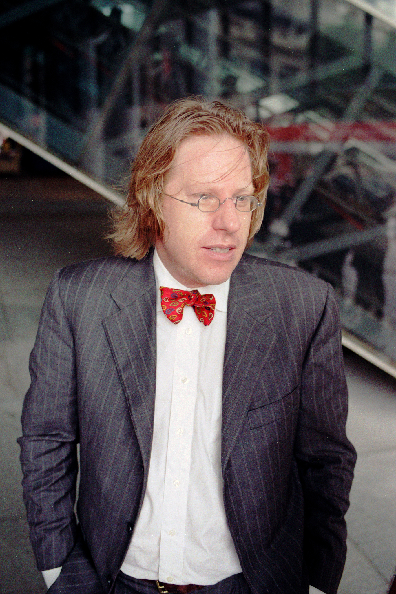 Artist Jonathon Keats at his exhibition, The Electrochemical Currency Exchange Co., 16 May 2012